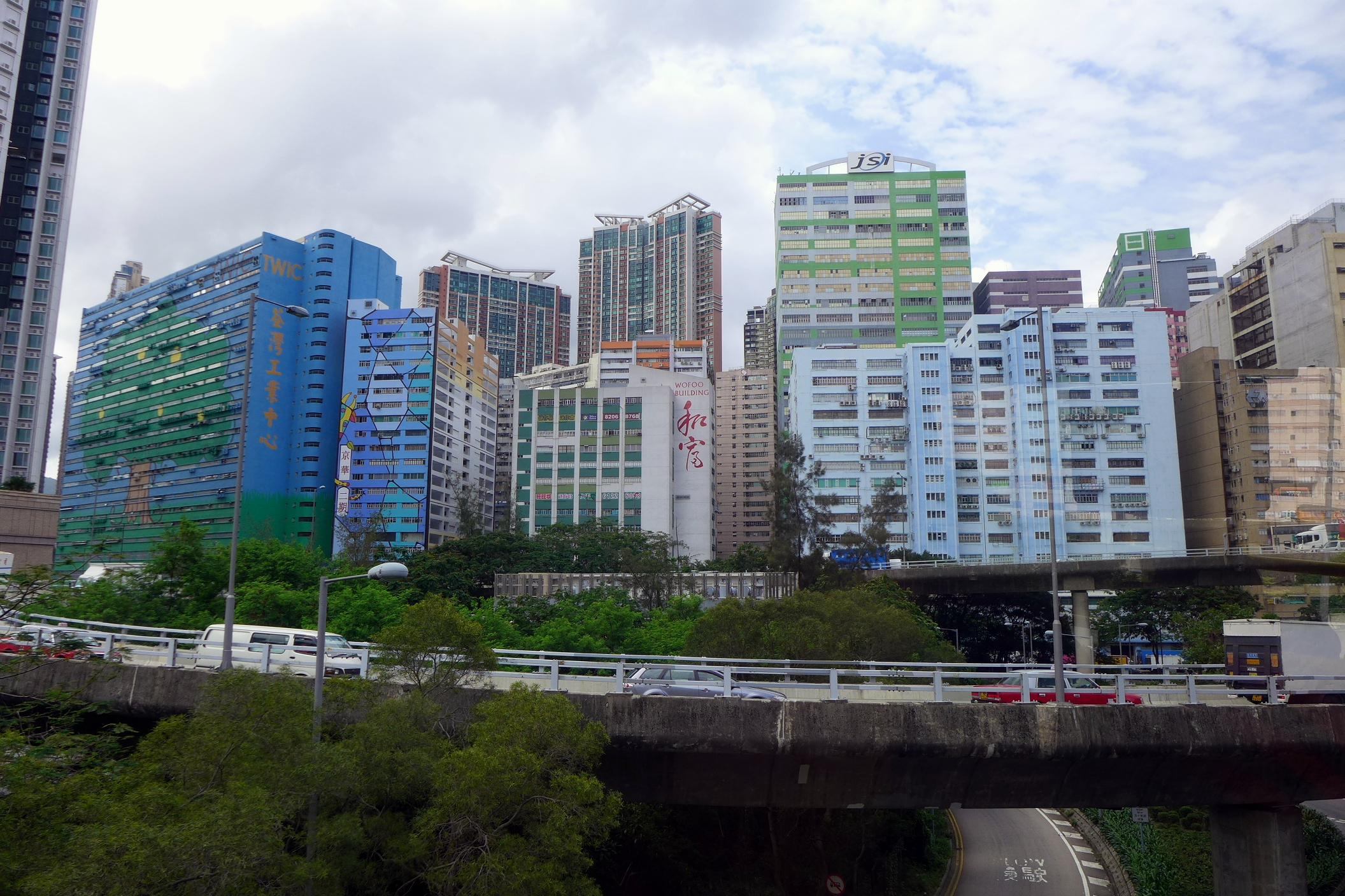 Tsuen Wan Industrial Area view